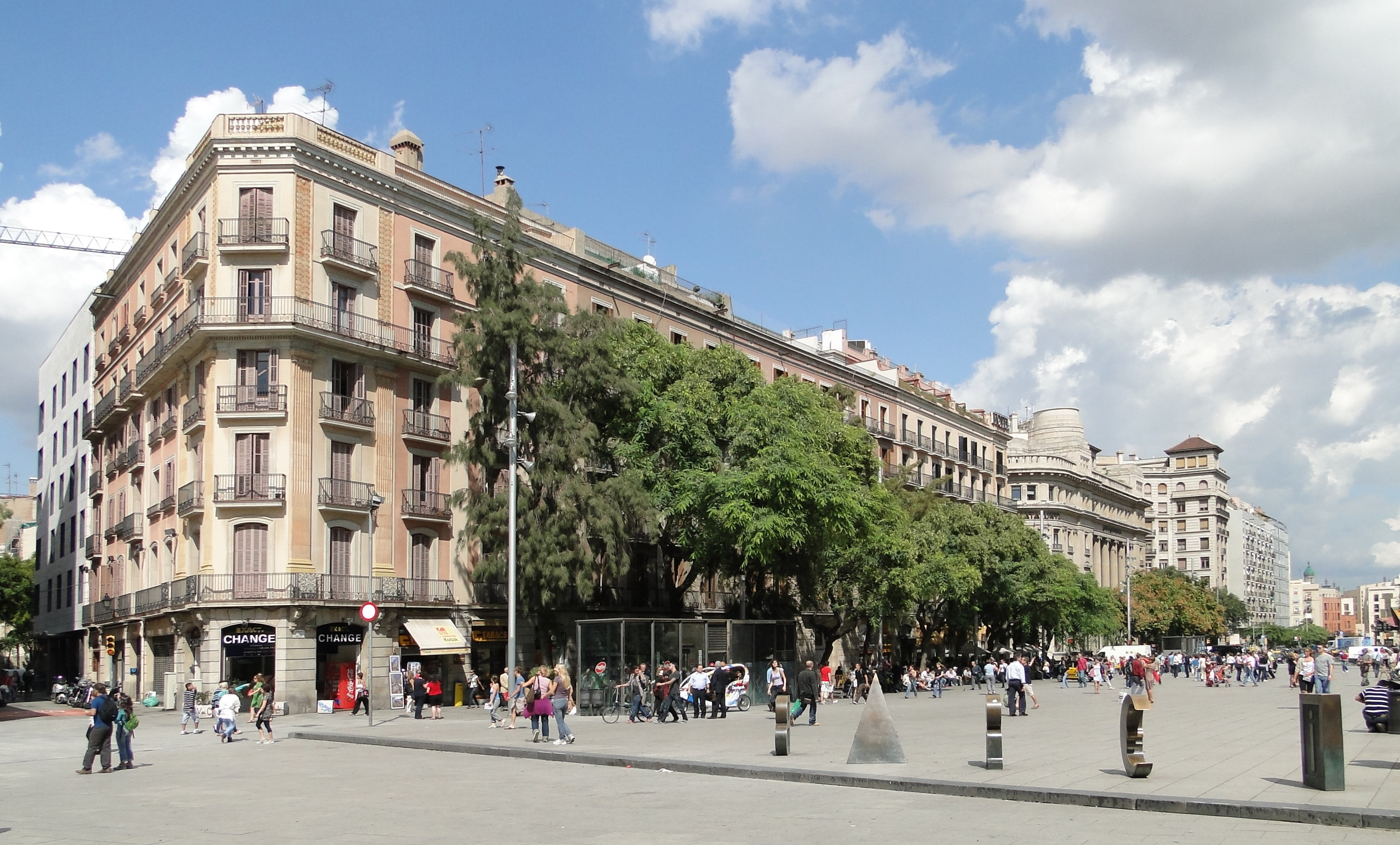 Plaça Nova, Barcelona, Spain